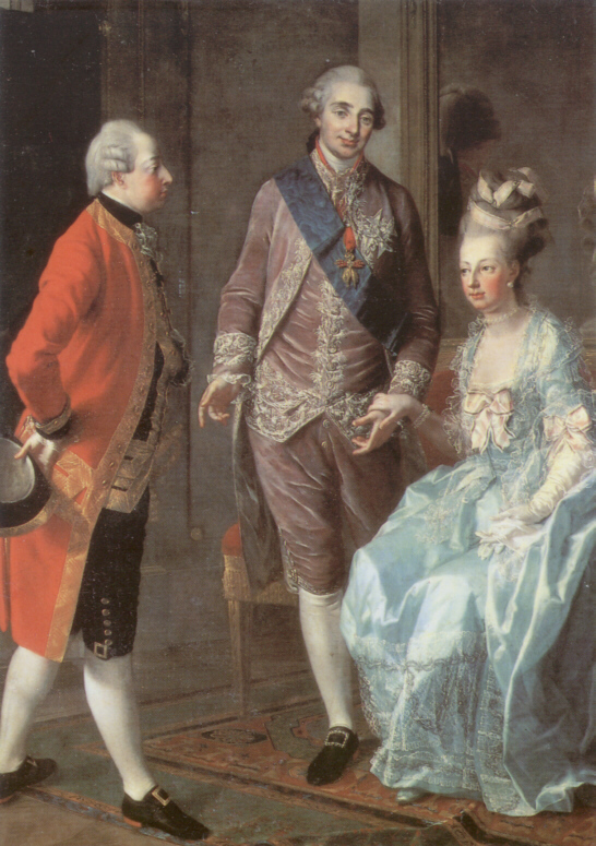 Archduke Maximilian Franz of Austria, son of Empress Maria Theresia of Austria and Holy Roman Emperor Franz I. Stephan of Lorraine, is visiting his sister Queen Marie Antoinette of France and her husband King Louis XVI. of France